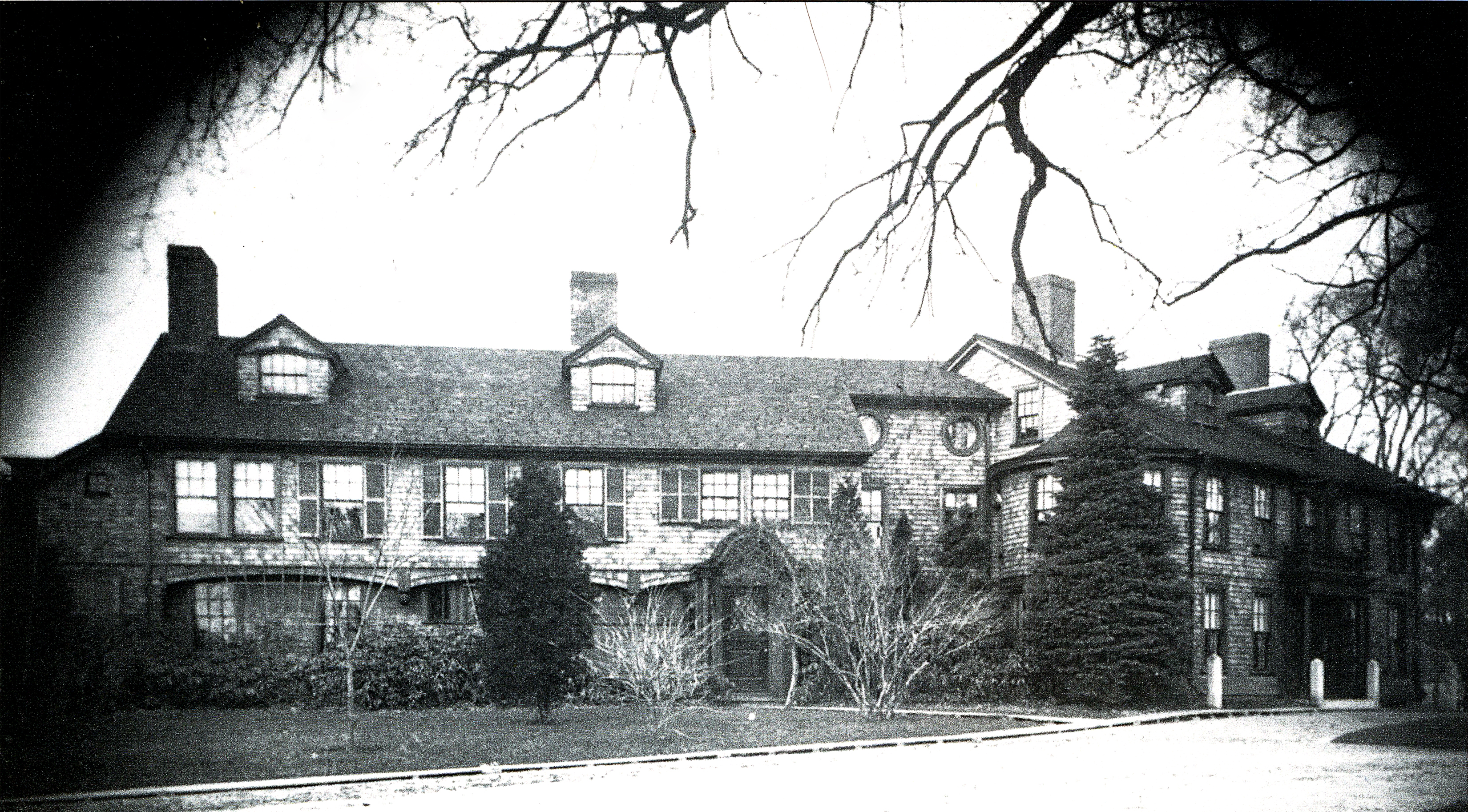 Nevins Estate at the corner of Hampshire St and Broadway in Methuen Massachusetts Circa 1909. Built by David Nevins, Sr. and his wife Eliza, left to his oldest son Henry Coffin Nevins and wife Julia, and then passed to widow of his second son David Nevins, Jr., Harriet Nevins. The estate was razed to make room for an ugly municipal building.